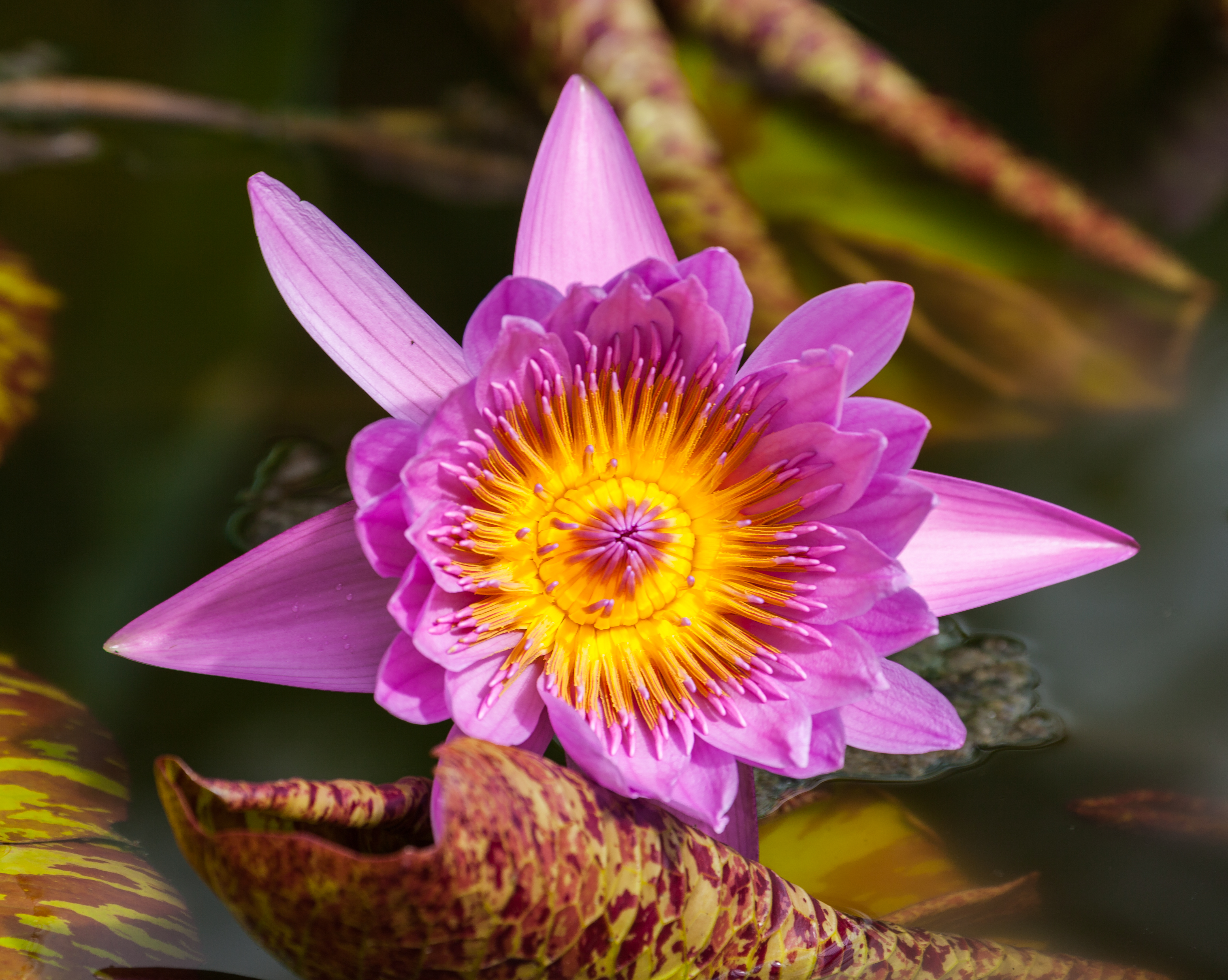 Flower of Nymphaea, Munich Botanical Garden, Germany